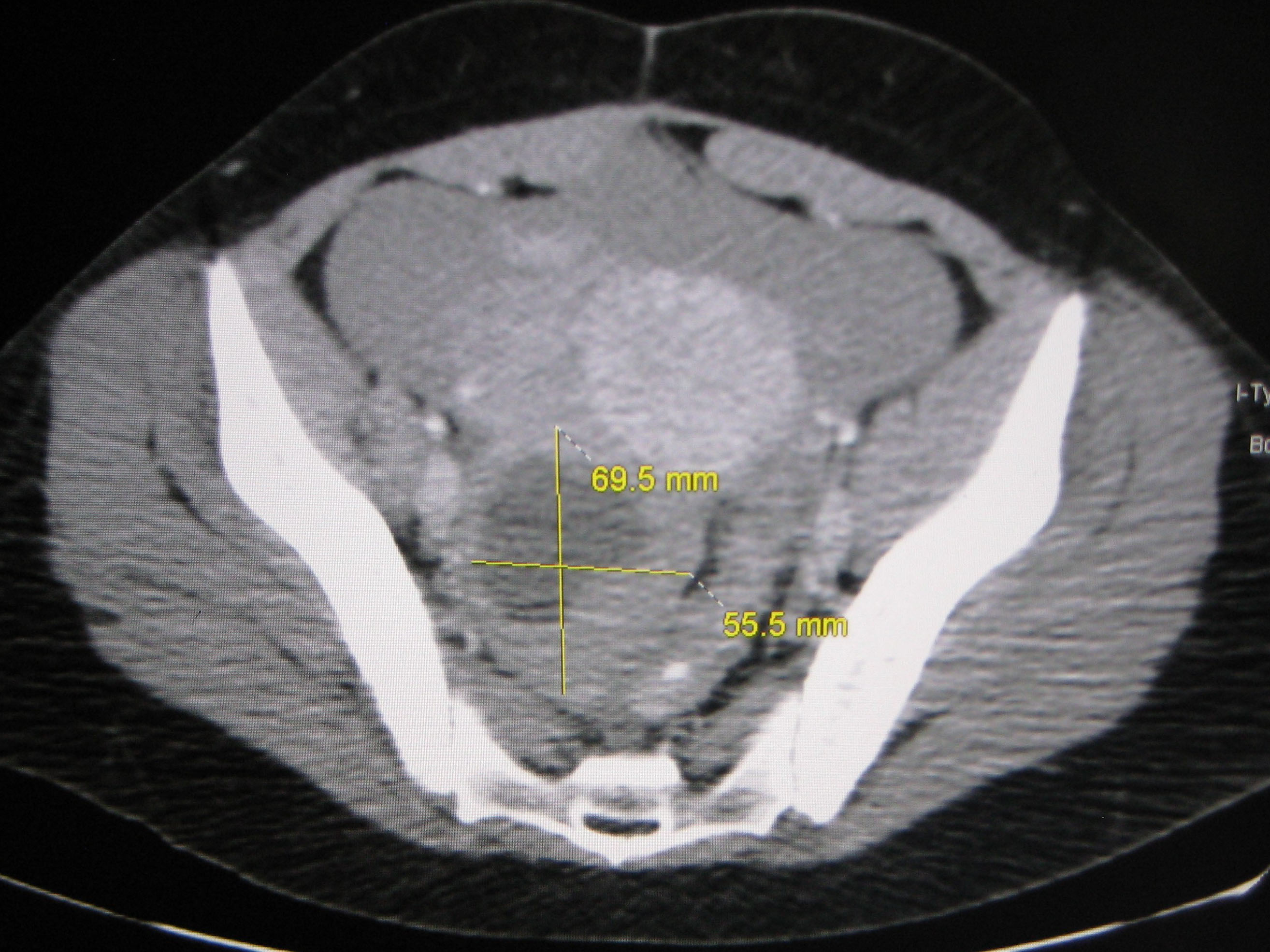 A large hemorrhagic ovarian cyst. This is an edited version of the source image made for use in the "Anatomist" iOS and Android app and shared here under the terms of the source image's Share Alike Creative Commons license.